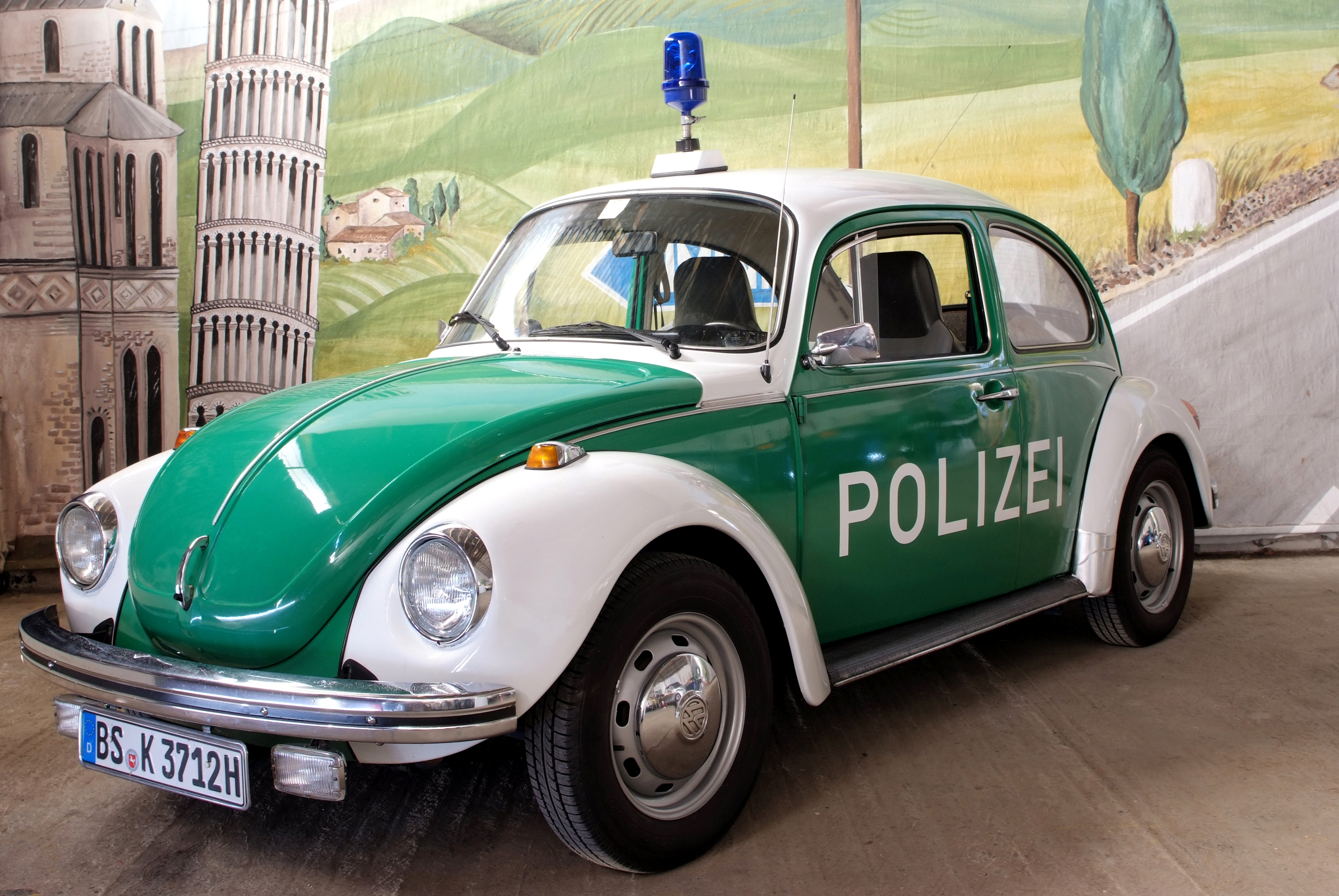 VW Beetle 1303, police variant